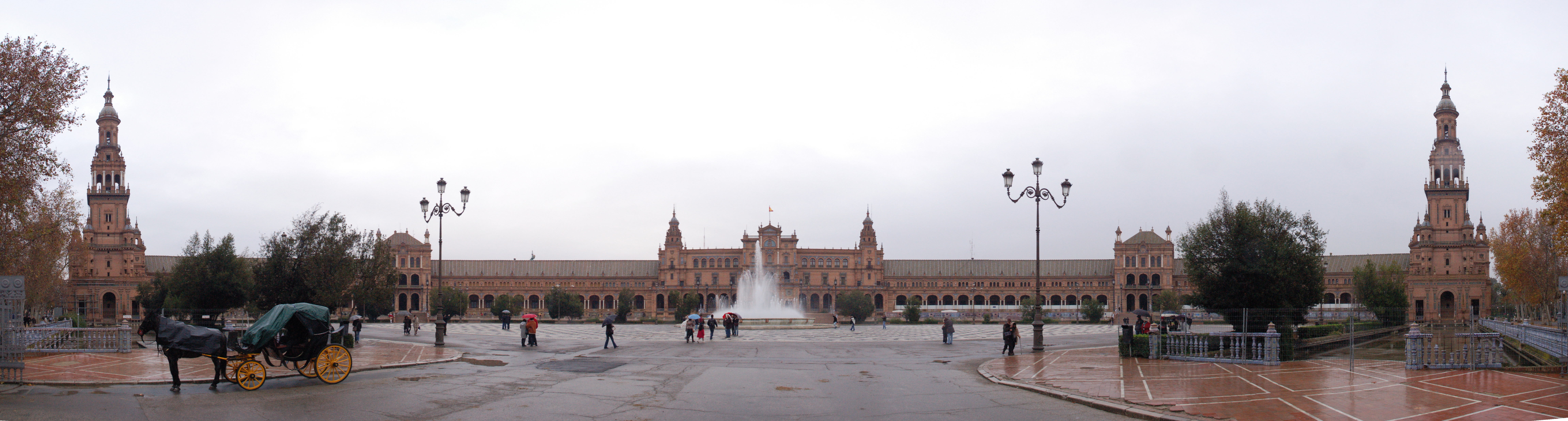 The Plaza de España (Square of Spain) in Sevilla, Spain